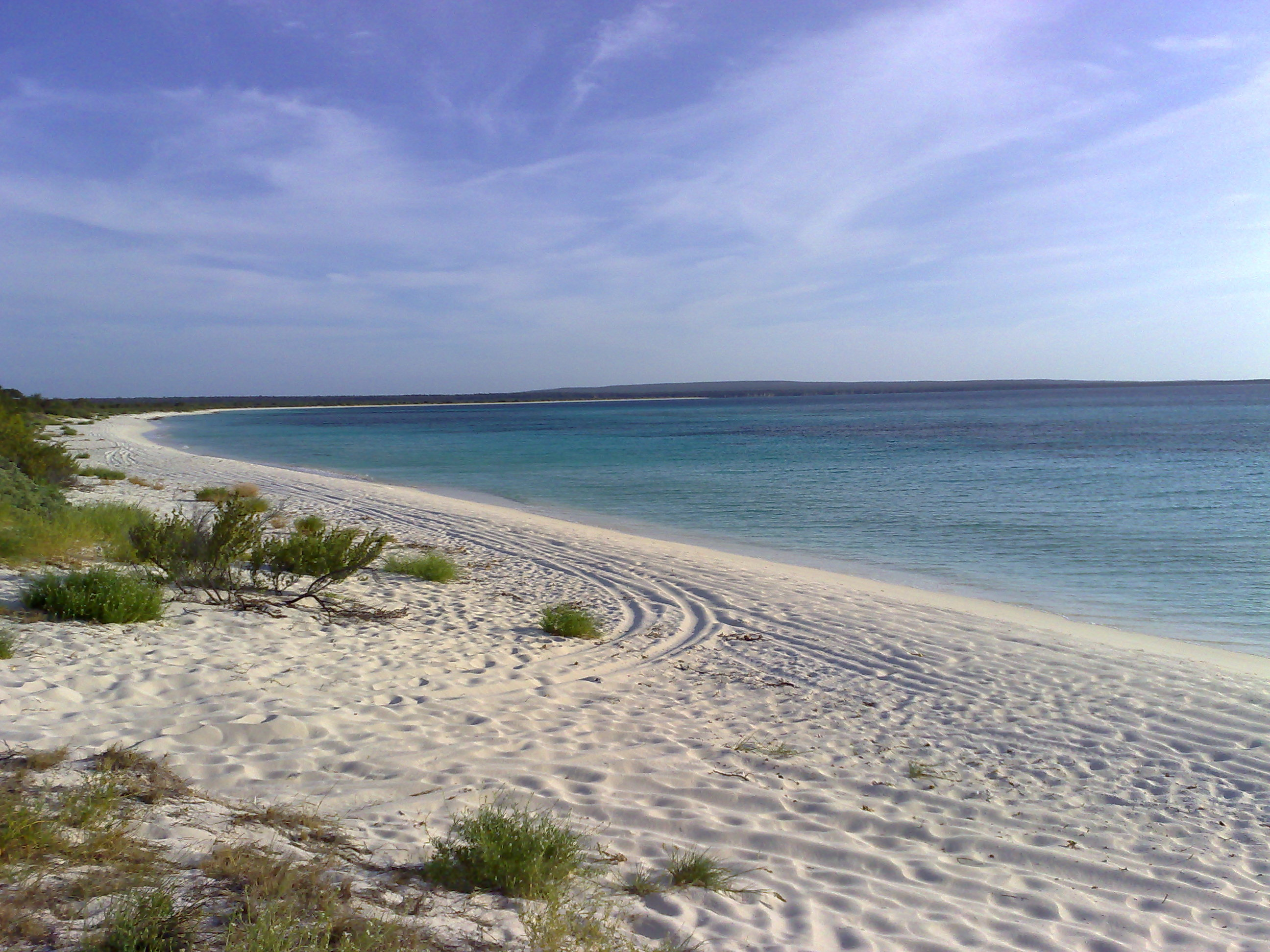 Bahia de las Aguilas, Pedernales - Dominican Republic